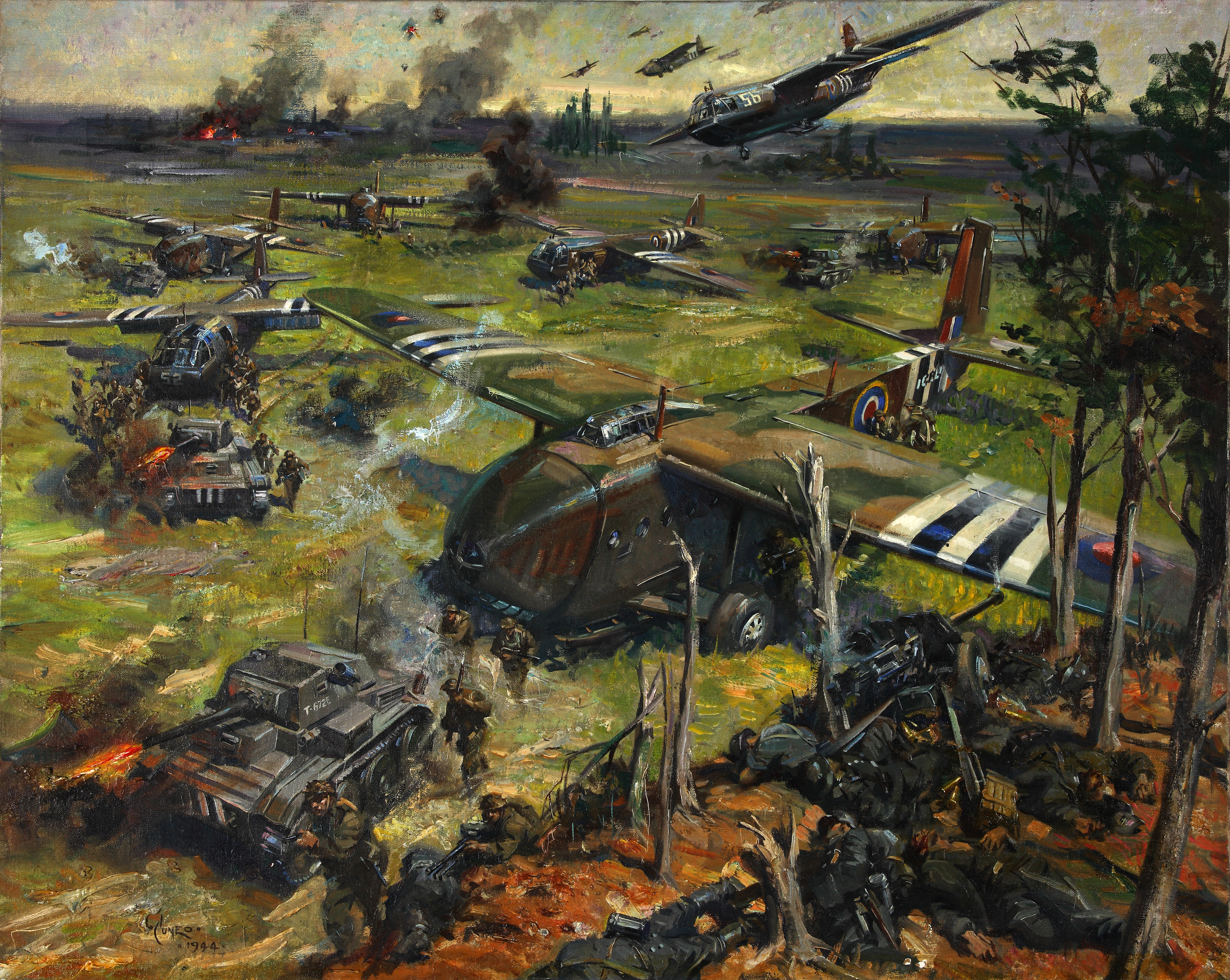 Troop carrying Airspeed Horsa aircraft land in a field amidst a tank battle